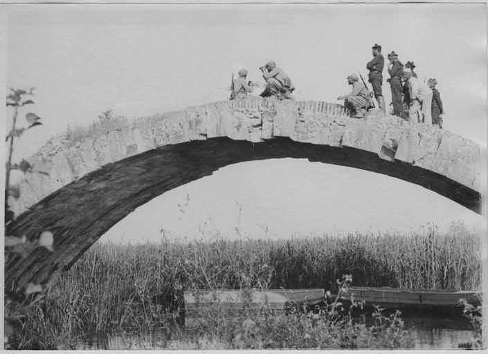 Klidi Bridge